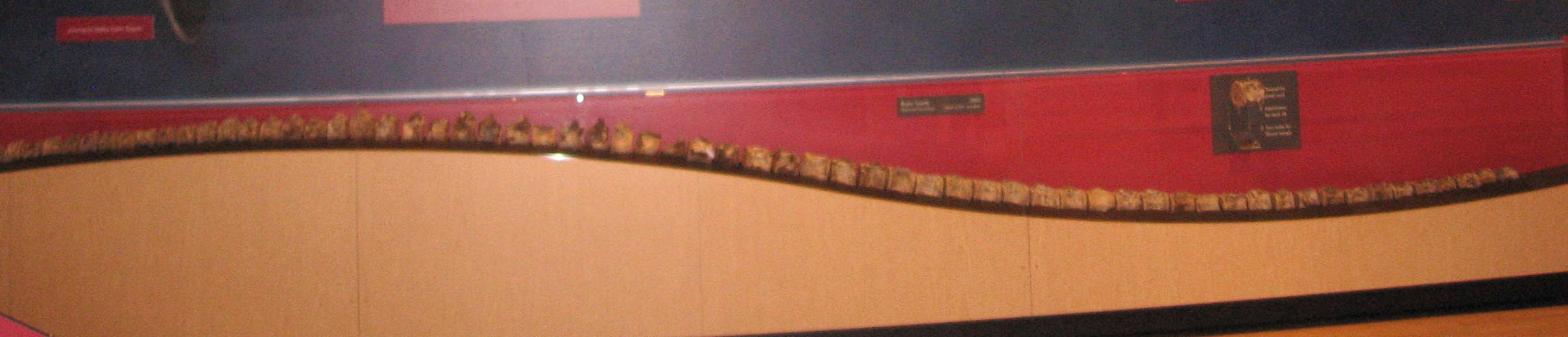 A huge Thalassomedon neck, it is longer than that. Found in Oklahoma.